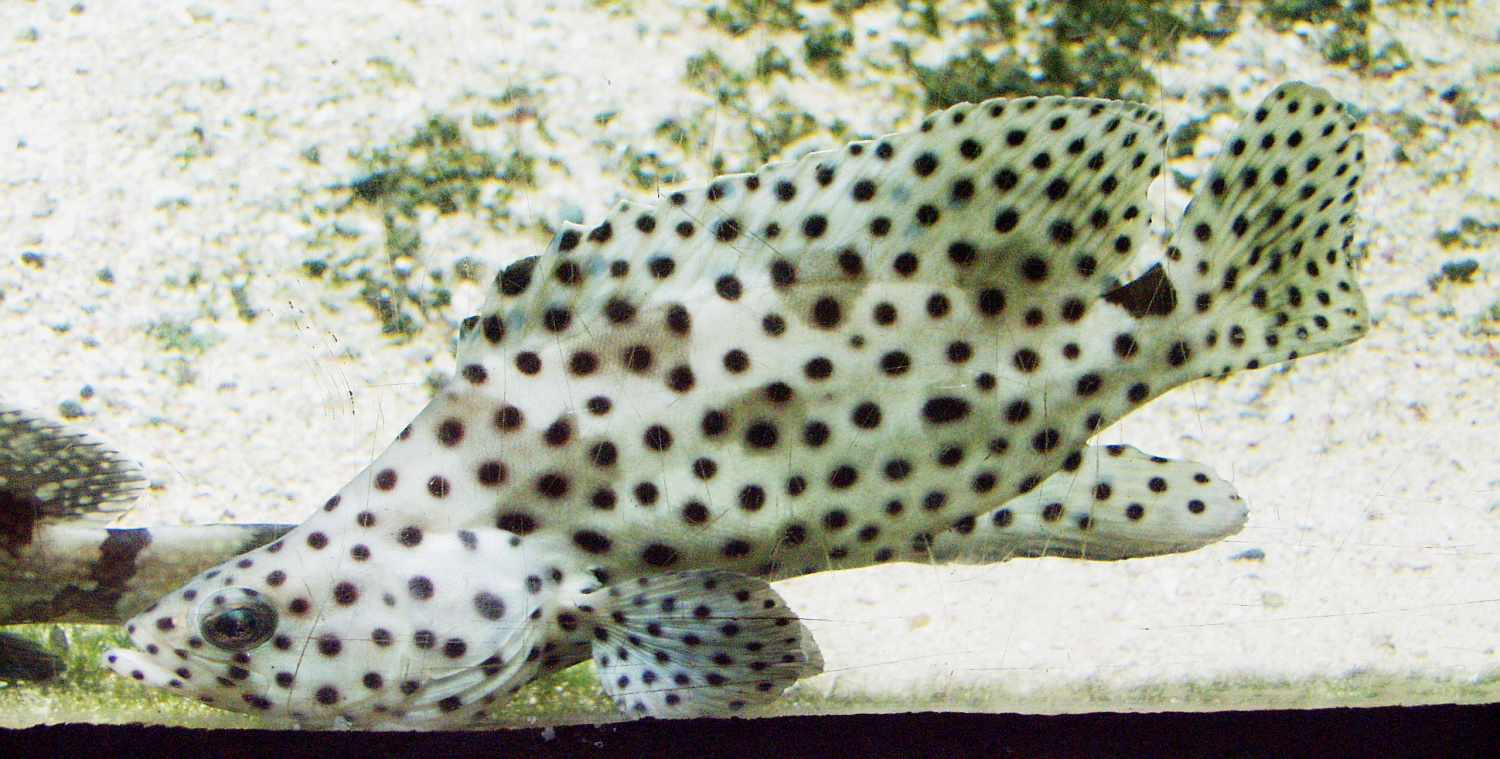 Panther grouper (Cromileptes altivelis) at Zoo Duisburg, Germany